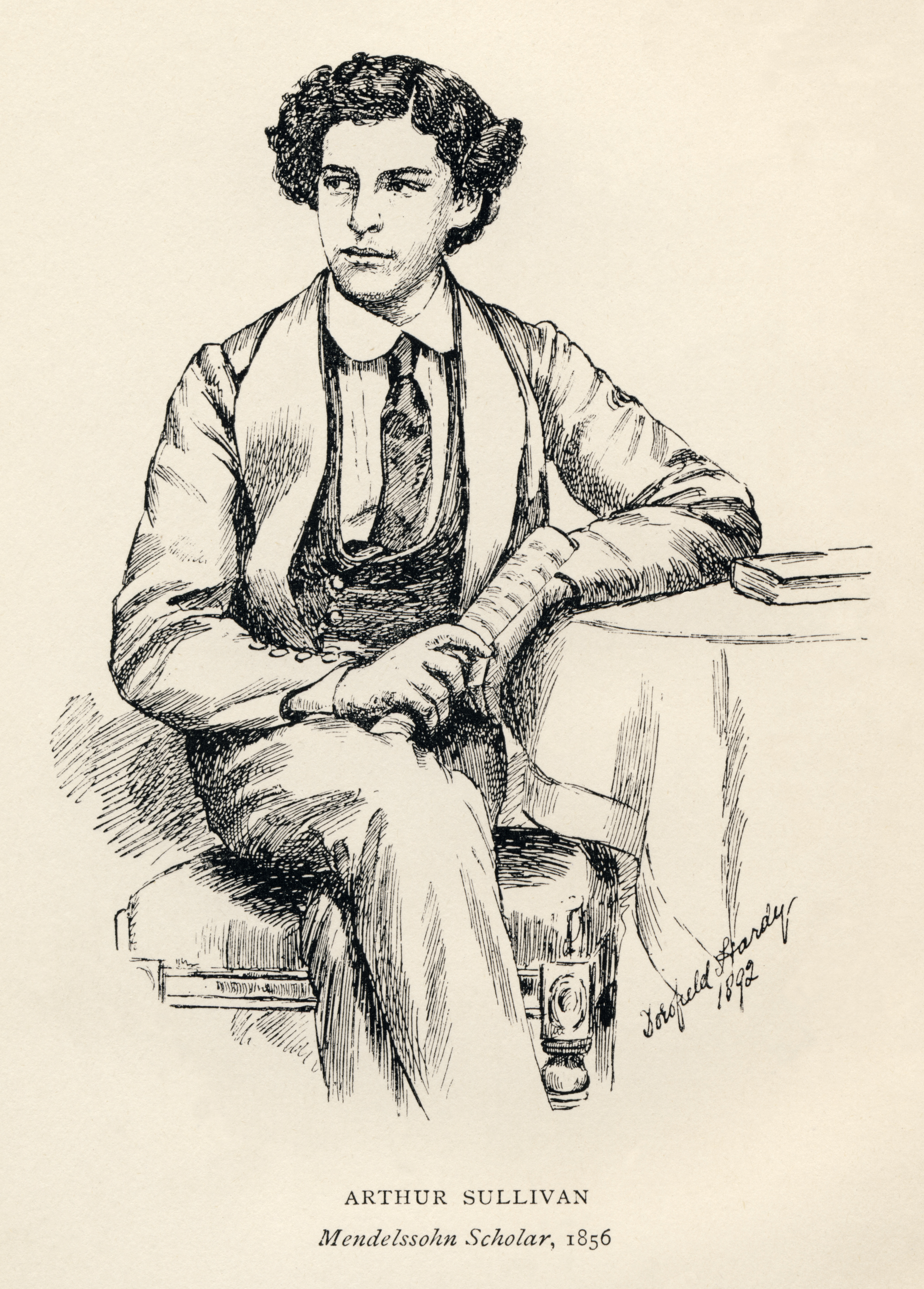 Dorofield Hardy's engraving of a photograph of Arthur Sullivan when he was a Mendelssohn Scholar. The book labels the engraving 1856, but this appears to be an error. An interview of Sullivan in The Strand magazine identifies the photograph as an 1860 photograph: Sullivan said "Yes, that portrait of me (when a student at Leipzig) was taken when I was eighteen". Sullivan was born in May 1842 and therefore turned 14 in 1856. In 1856, he became the first Mendelssohn Scholar. However, he did not go to study in Leipzig until later; therefore, the 1860 date is more plausible. It may be that the 1856 date shown on the drawing merely refers to the year in which Sullivan was awarded the scholarship.